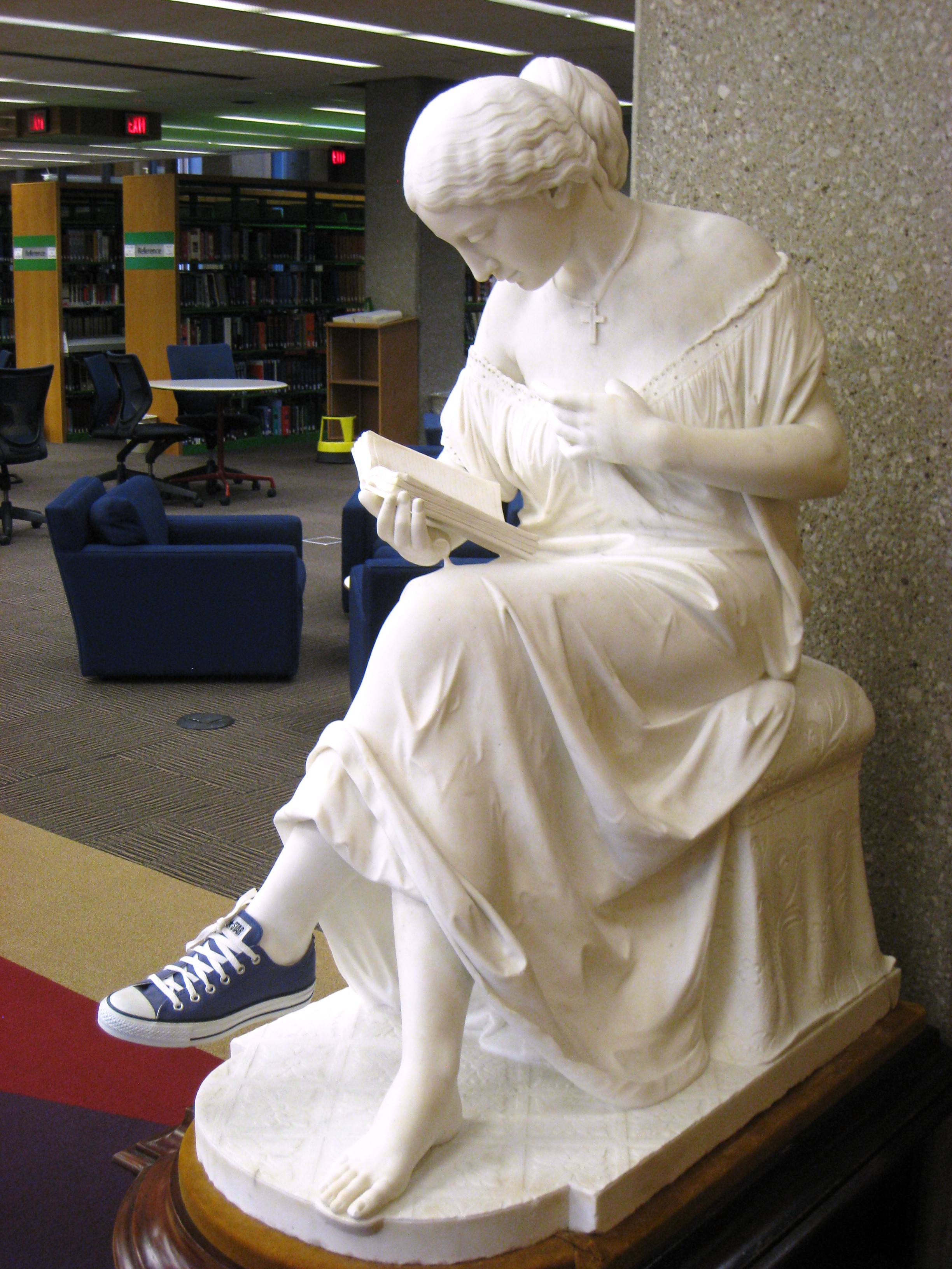 The Reading Girl, marble sculpture by John Adams Jackson (1825–1879), now displayed in Mudd Library, Oberlin College, Oberlin, Ohio, USA. I took this photograph.